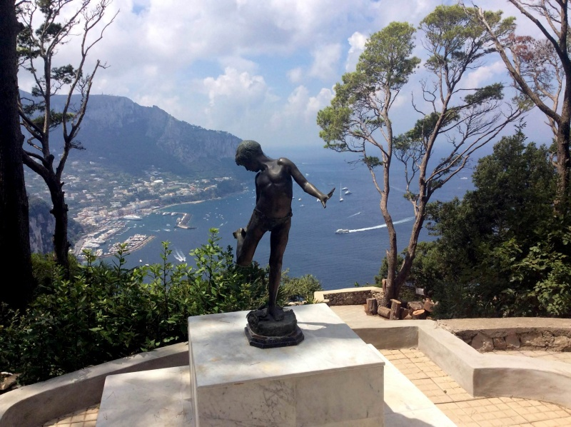 View from Villa Lysis